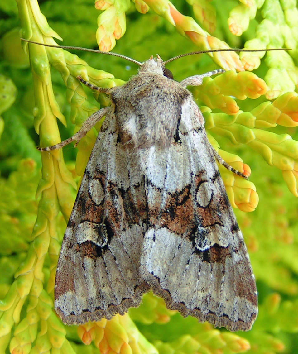 Rustic Shoulder Knot Dart Moth Apamea sordens, Wheatley, Ontario, Canada.